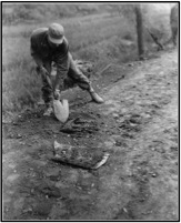 Soldiers from the 77th Engineer Company prepares to remove a mine with a shovel.